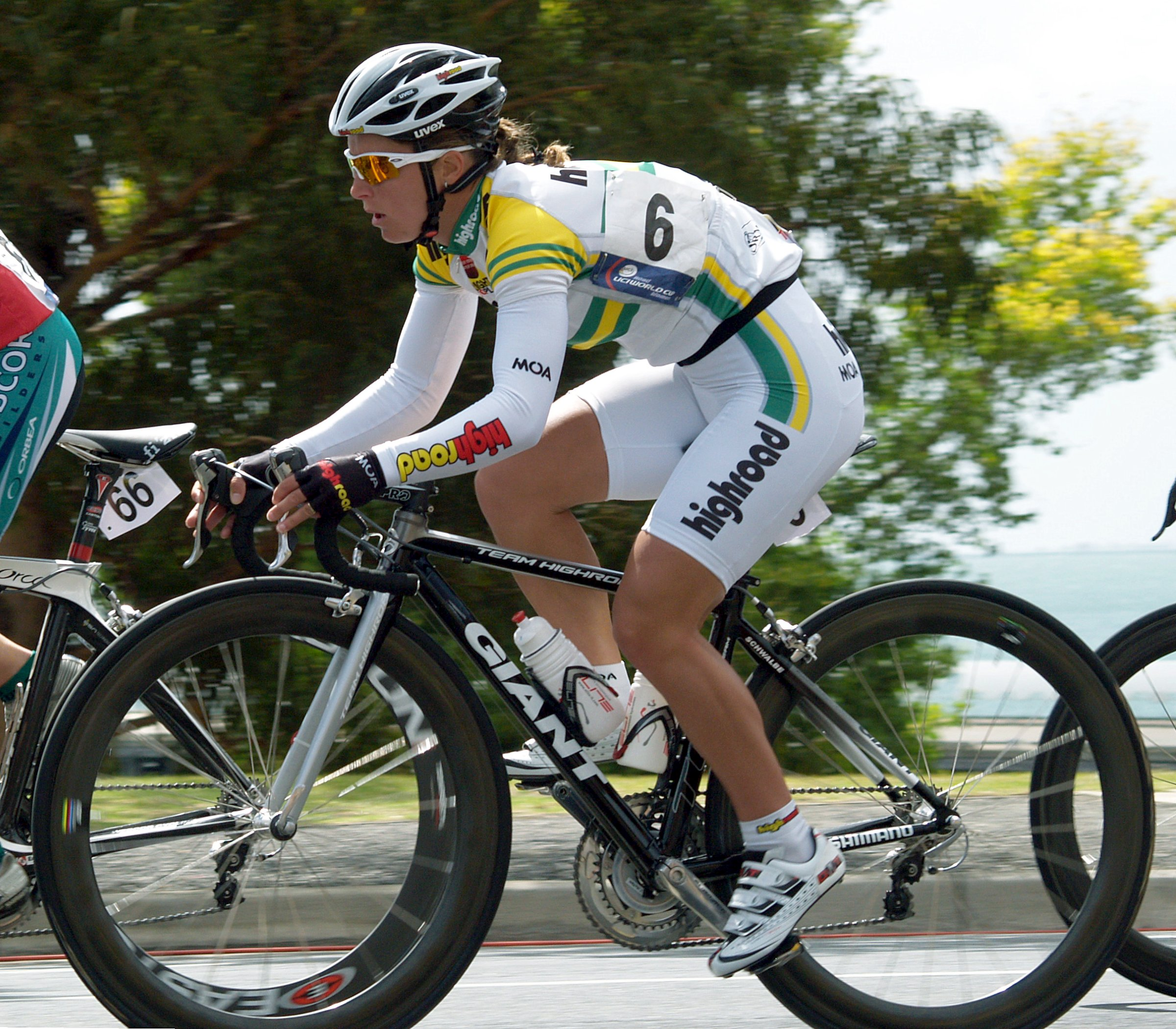 Australian cyclist Oenone Wood (Team High Road) during the 2008 Geelong World Cup, Geelong, Australia. She is wearing the colours of the 2008 Australian National Road Race Champion.